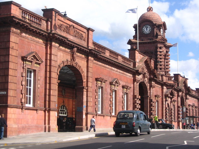 Nottingham Railway Station - main entrance The station was built in an Edwardian Baroque Revival style and was officially opened in January 1904. It was built using a mix of red brick, terracotta and faience (a glazed terracotta) with slate and glazed pitch roofs over the principal buildings.